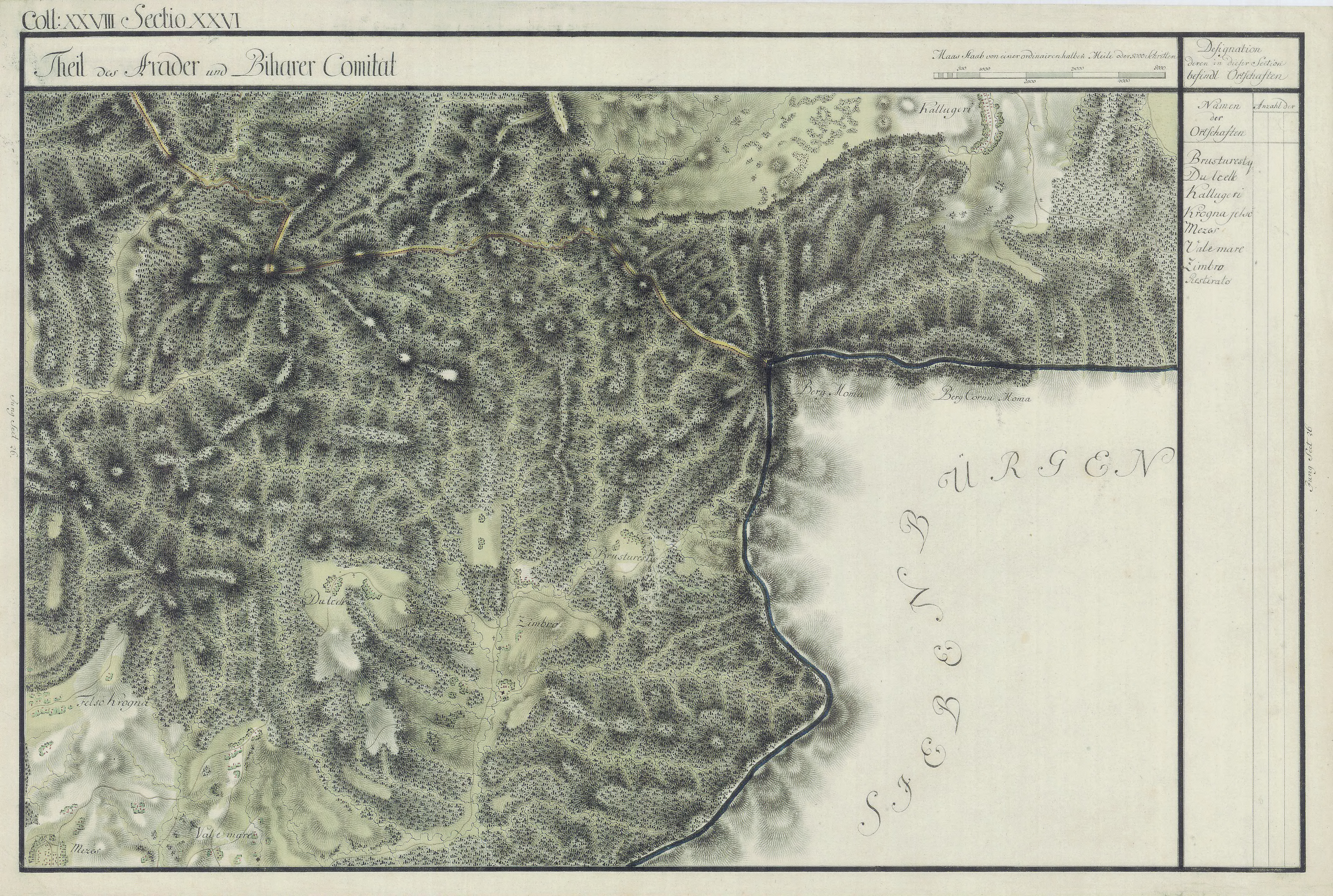 Arad County, 1782-85. Josephinische Landesaufnahme pg.28-26